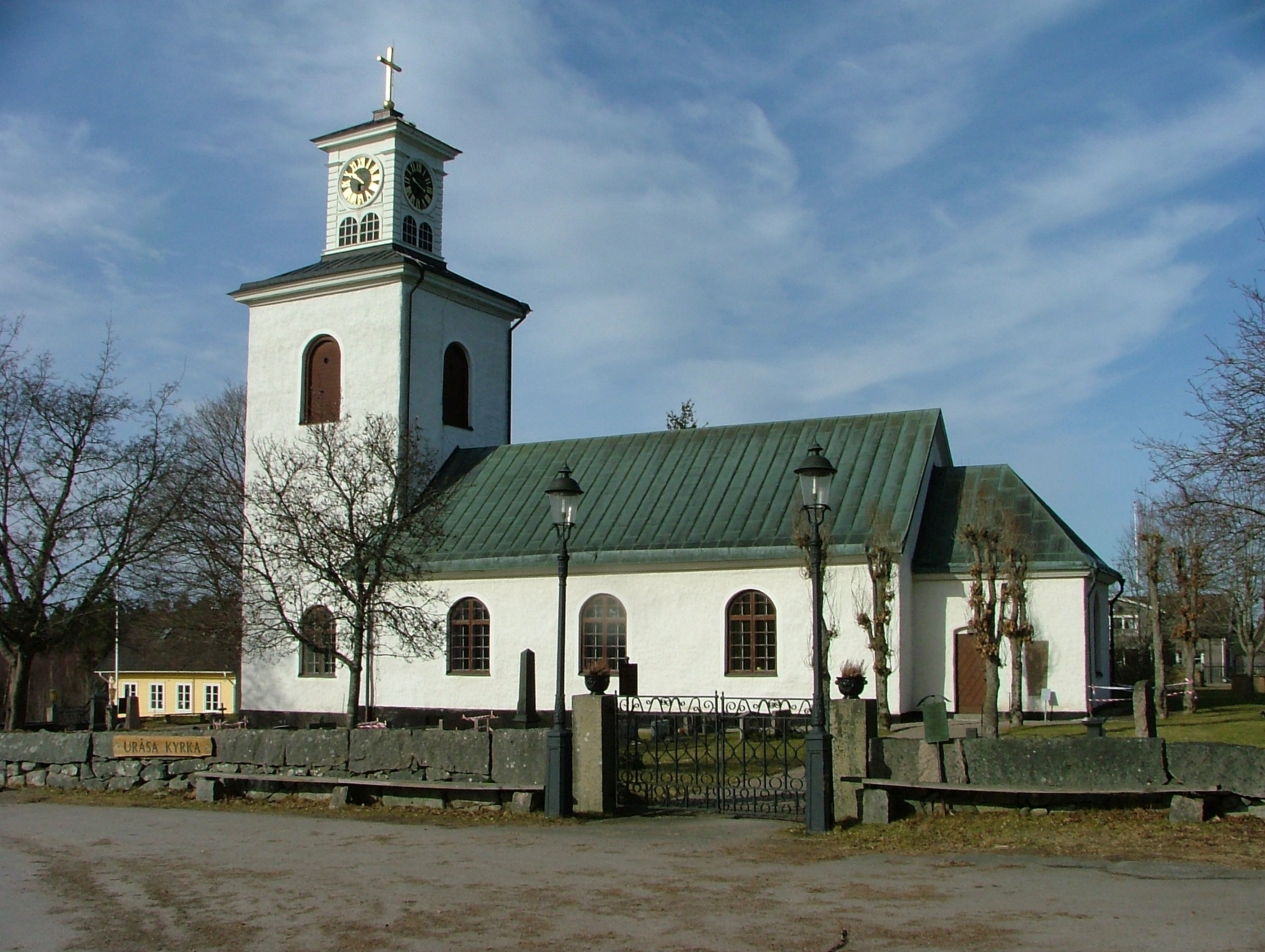 Uråsa churchThe church which outwardly has the character of a neoclassical church building dates back to 1100 or 1200s. In the 1800s the church was radically altered. 1841 erected tower and provided with a period superstructure.